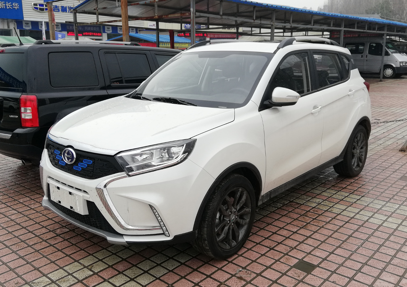 JMEV E400 photographed in Nanchang, Jiangxi province, China.